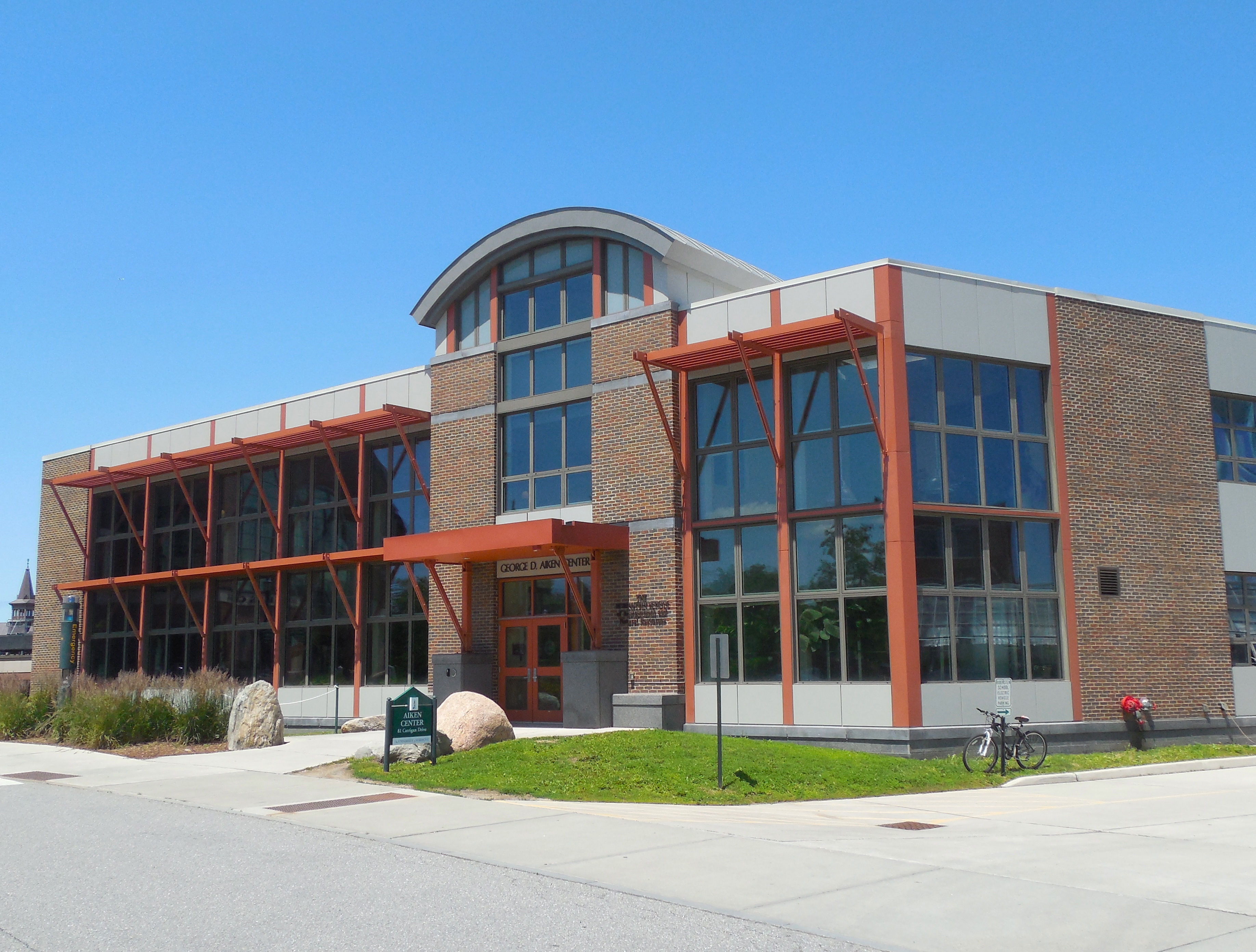 George D. Aiken Center at the University of Vermont (southern entrance); home of the Rubenstein School of Environment & Natural Resources: July 2015